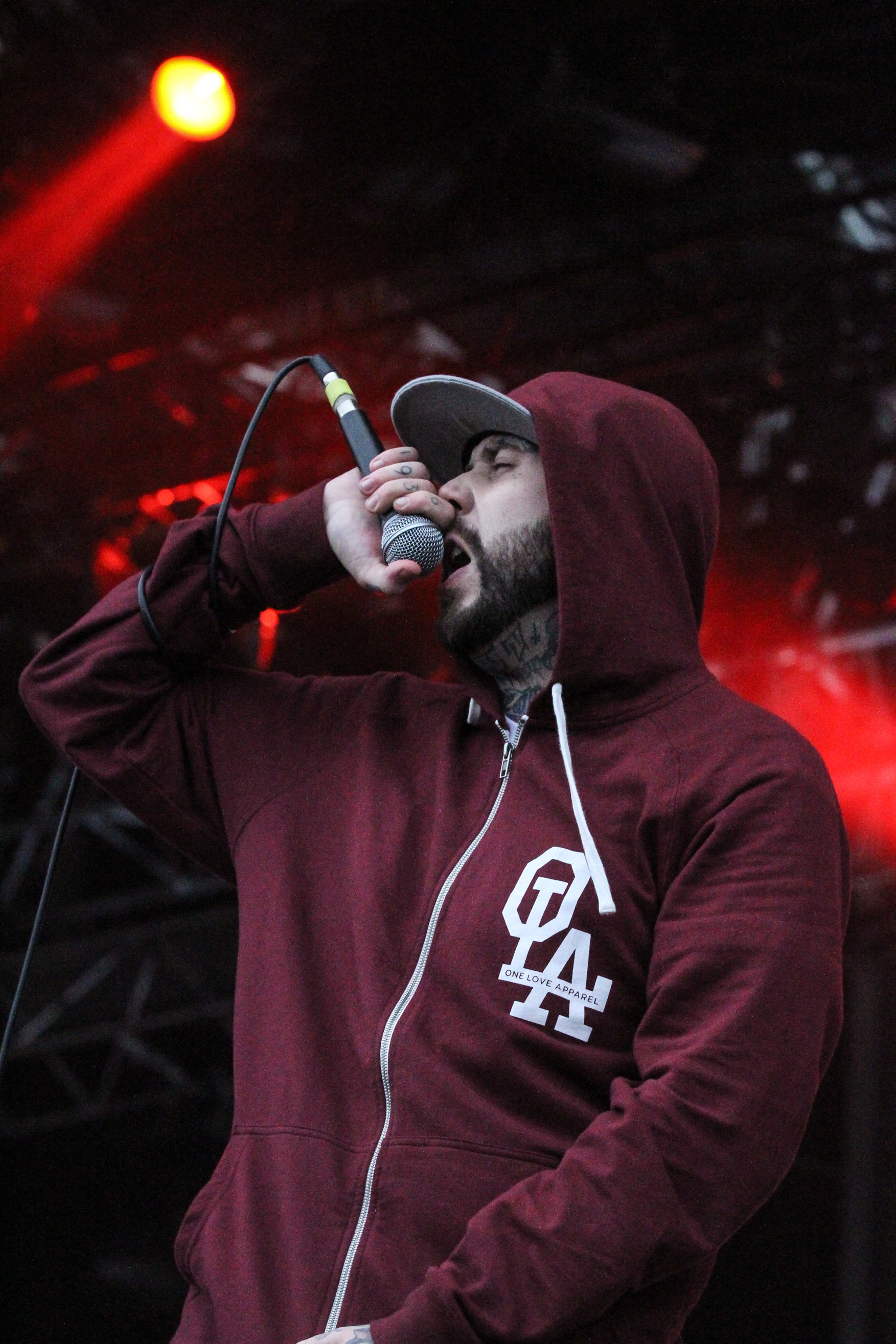 Festivalsommer This photo was created with the support of donations to Wikimedia Deutschland in the context of the CPB project "Festival Summer".